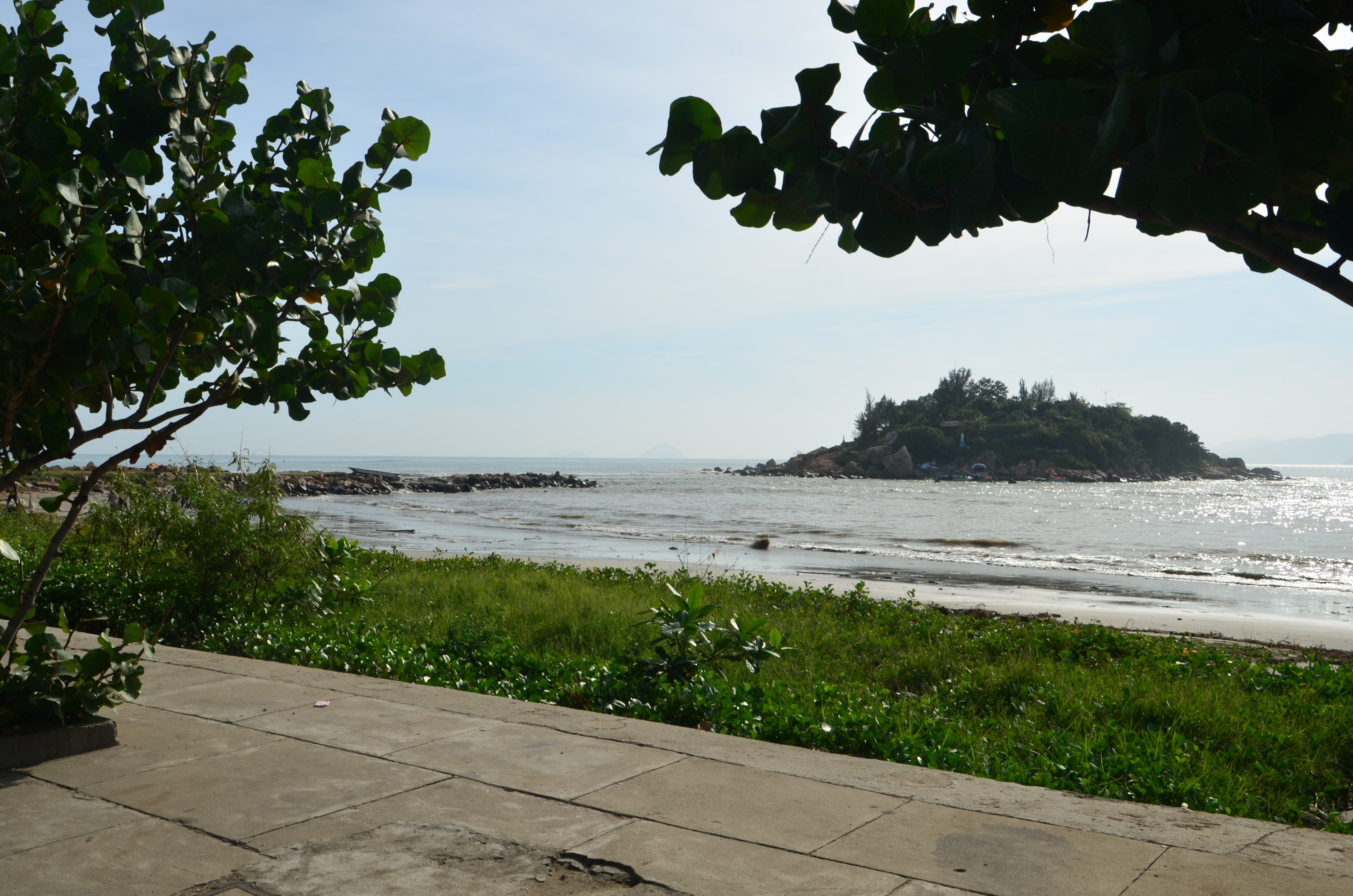 Đỏ Island - Nhatrang - Vietnam